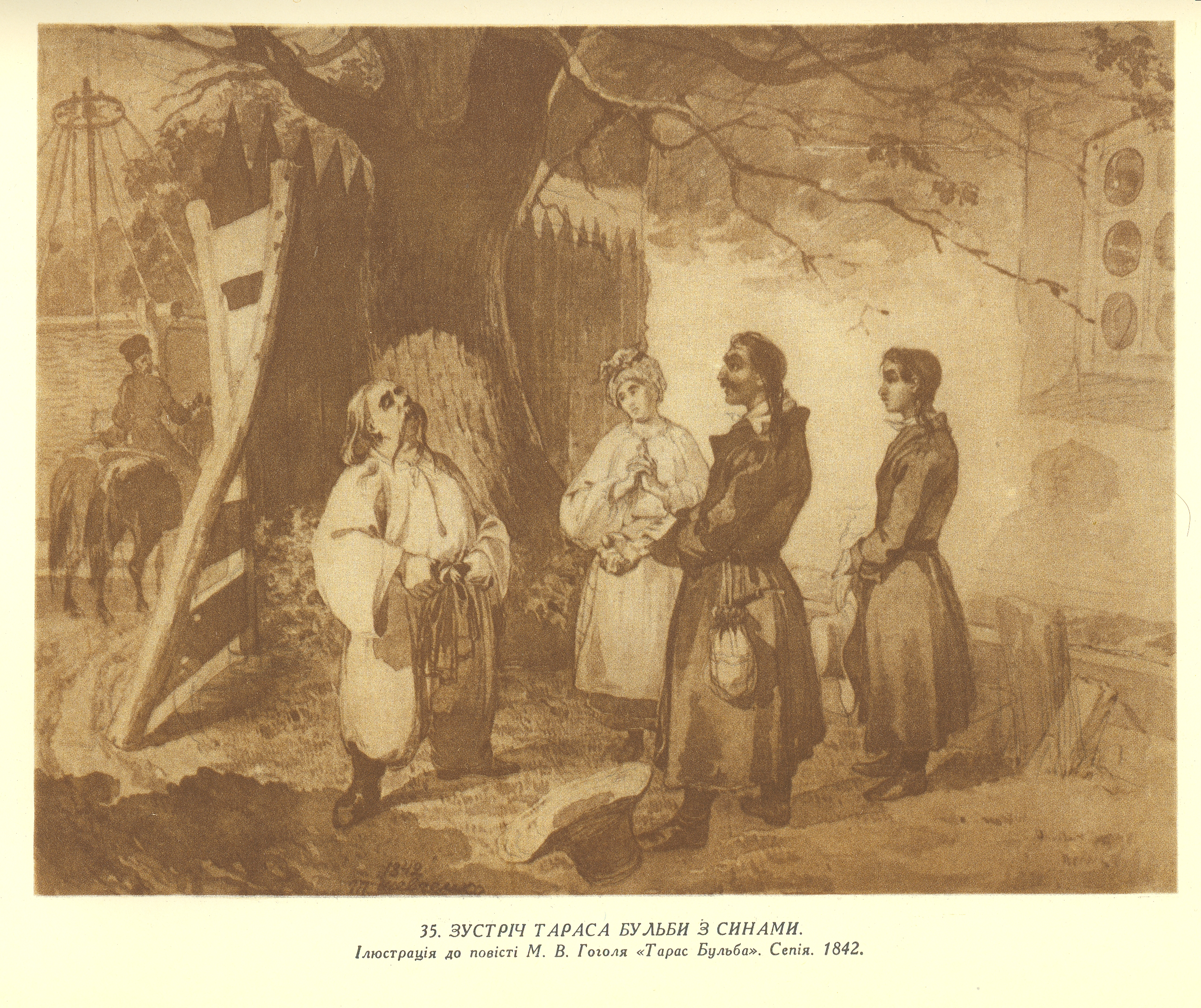 Painting of Taras Shevchenko